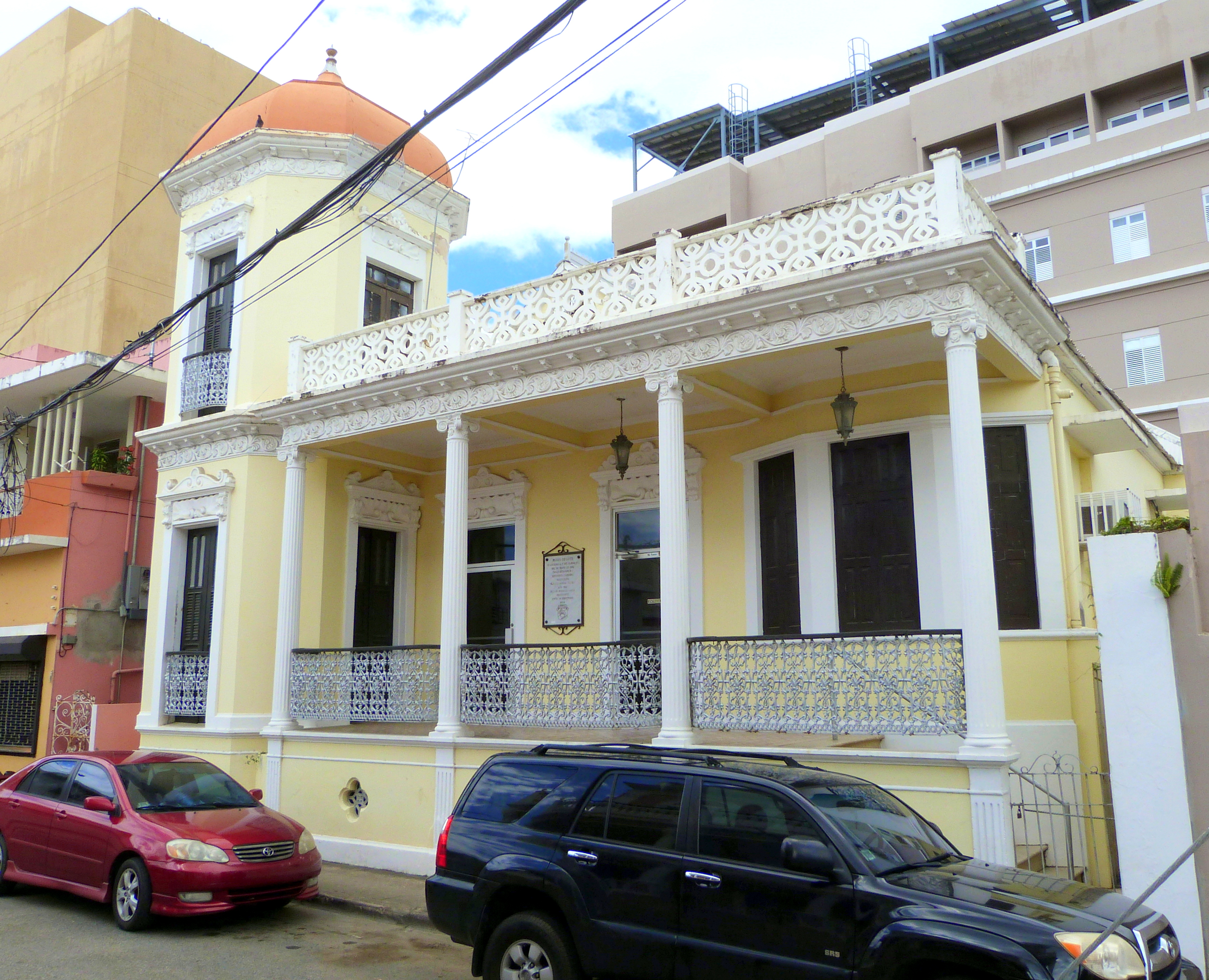 The historic Cardona Residence (built 1913), located at Calle Ramón E. Betances #55 in Aguadilla, Puerto Rico, is listed on the U.S. National Register of Historic Places. As of the photo date, the building is occupied by the Aguadilla Art Museum.